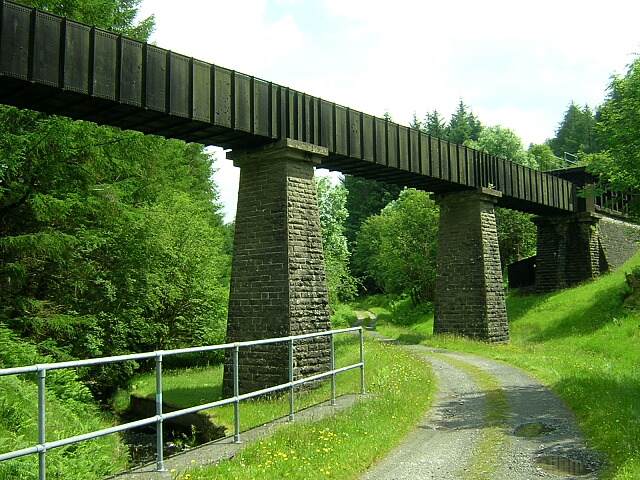 Aqueduct in Loch Ard Forest. The Loch Katrine to Glasgow Aqueduct passing over Castle Burn in Loch Ard Forest